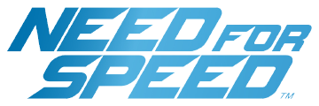 nfs logo